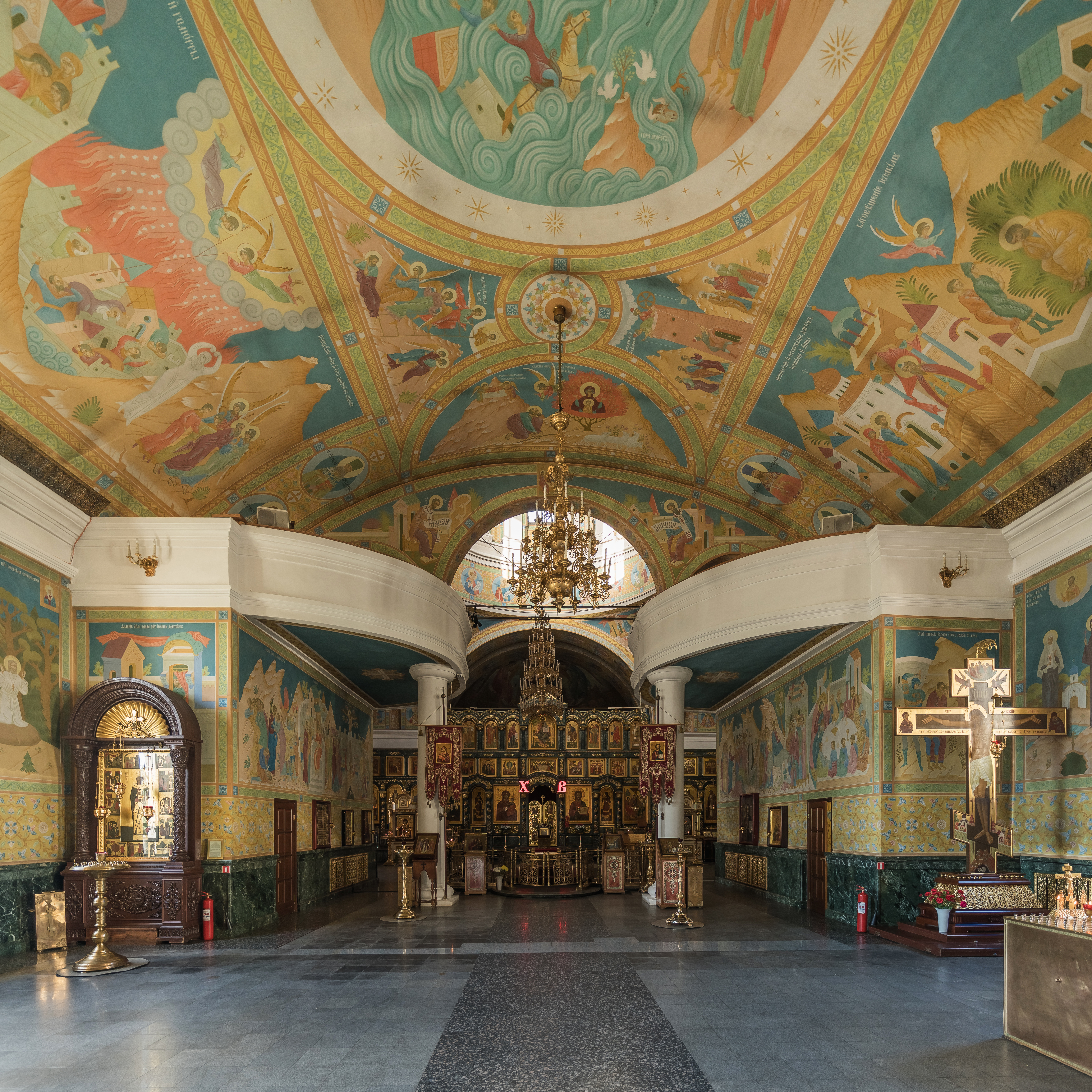 Interior of Holy Trinity Cathedral in Ekaterinburg, Russia